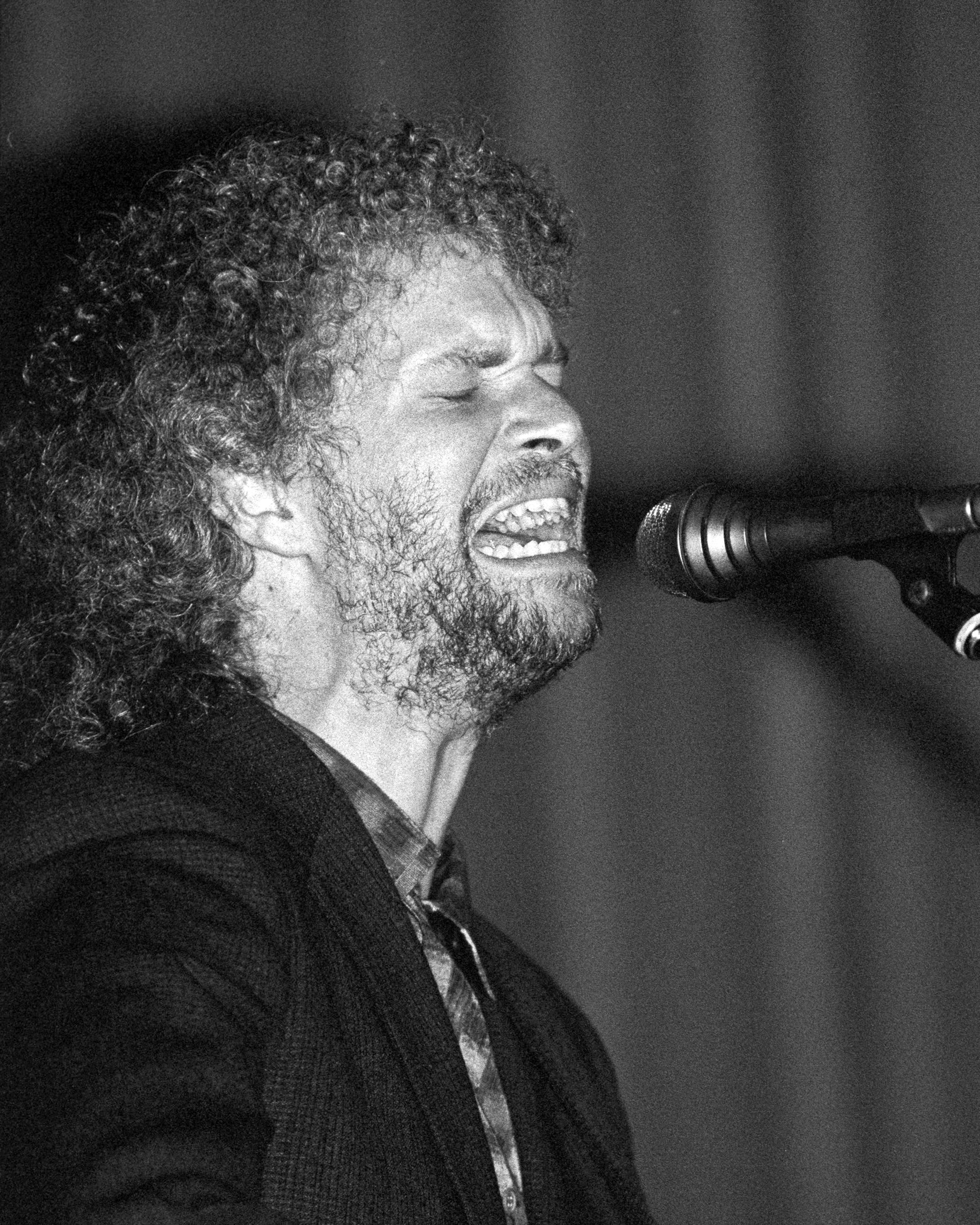 Mark Heard, Statler Auditorium, Cornell University, Sunday, May 3, 1987. Black and white original.